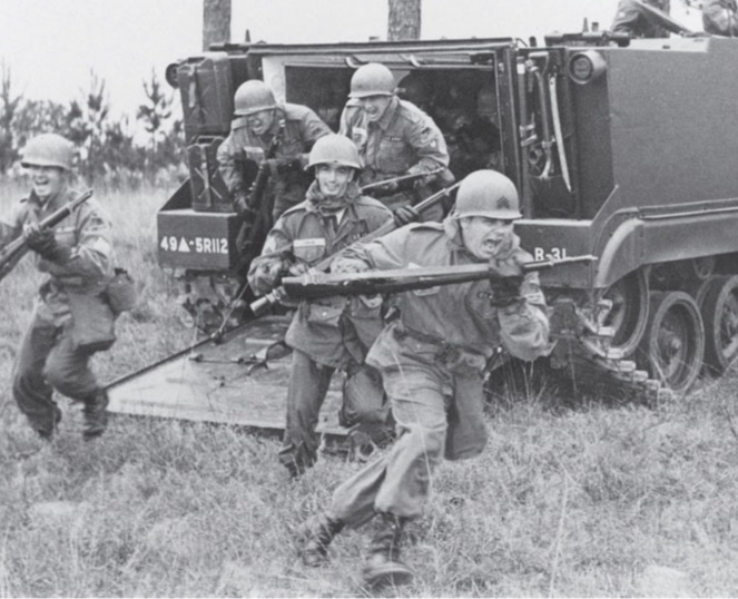 Infantrymen of the Texas National Guard's 49th Armored Division dismount from a M-113 armored personnel carrier of the 5th Battalion, 112th Armor while training at Fort Polk, LA, during their tour of active duty as part of the Berlin Crisis in 1961-1962.